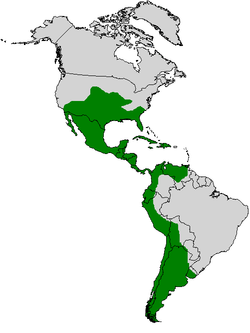 A range map showing the distribution of the Southern Dogface (Colias cesonia)